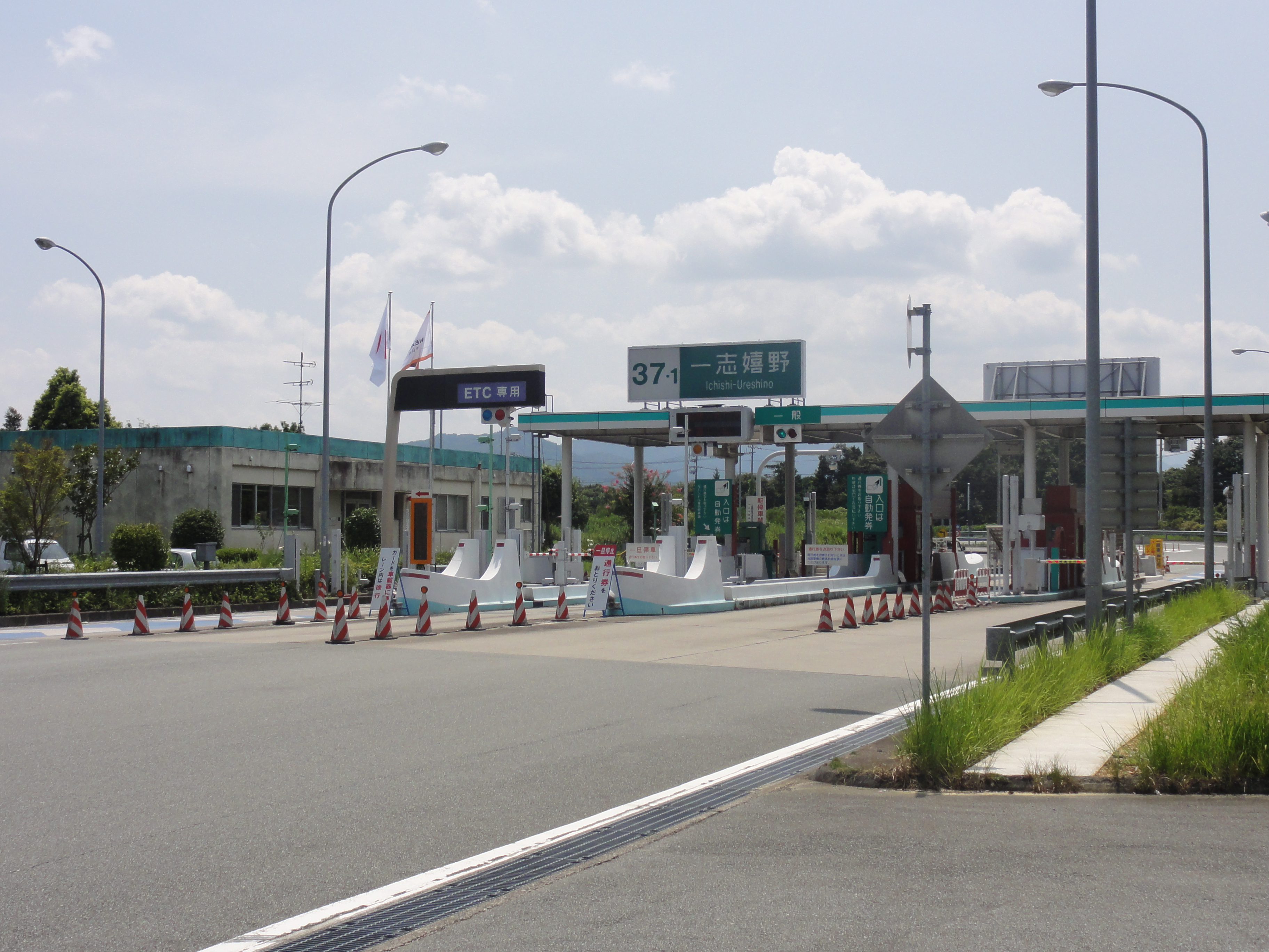 Ichishi-Ureshino Interchange of Ise Expressway, Mie Pref., Japan.